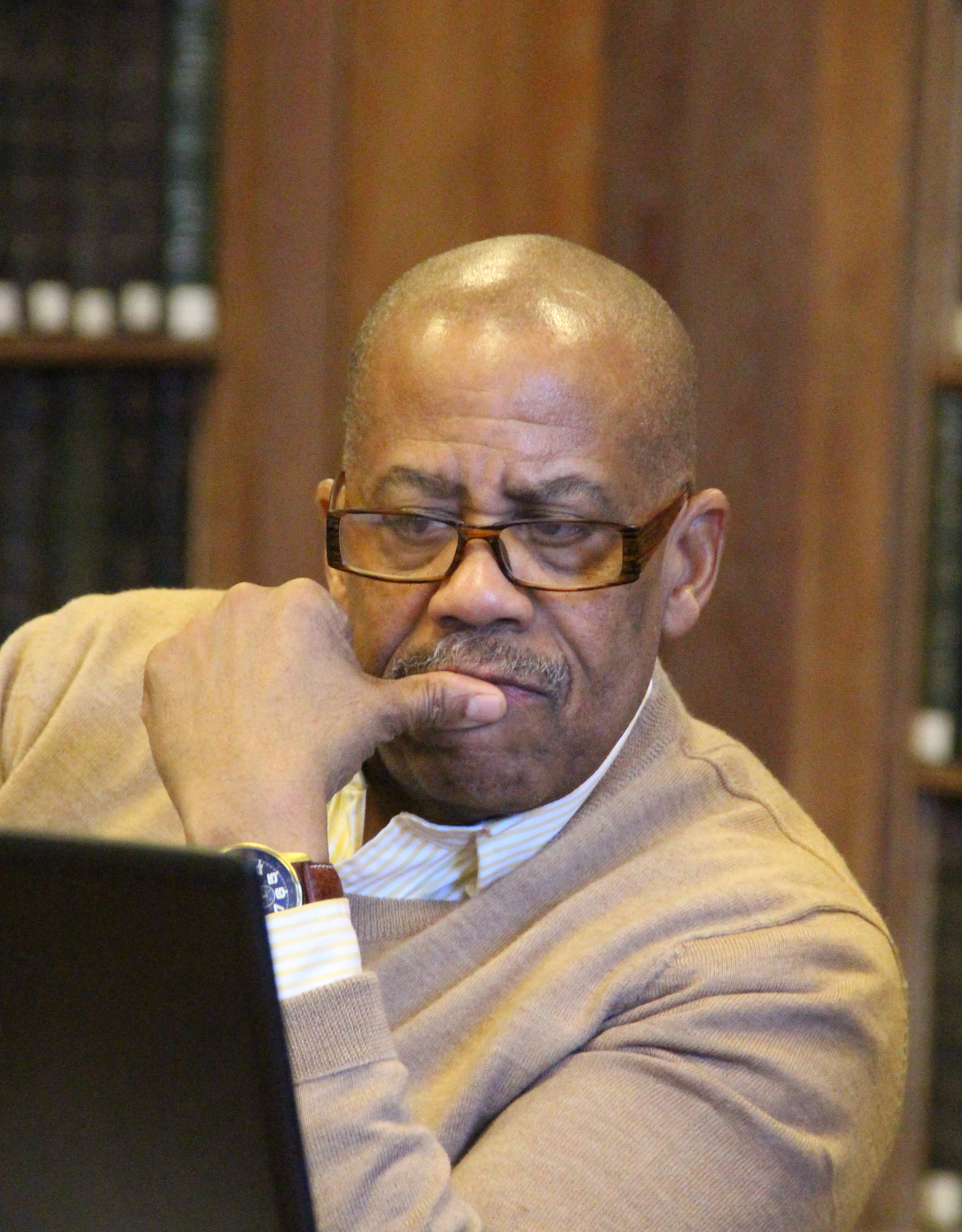 Russell Williams, II -- American sound mixer and two-time Oscar winner